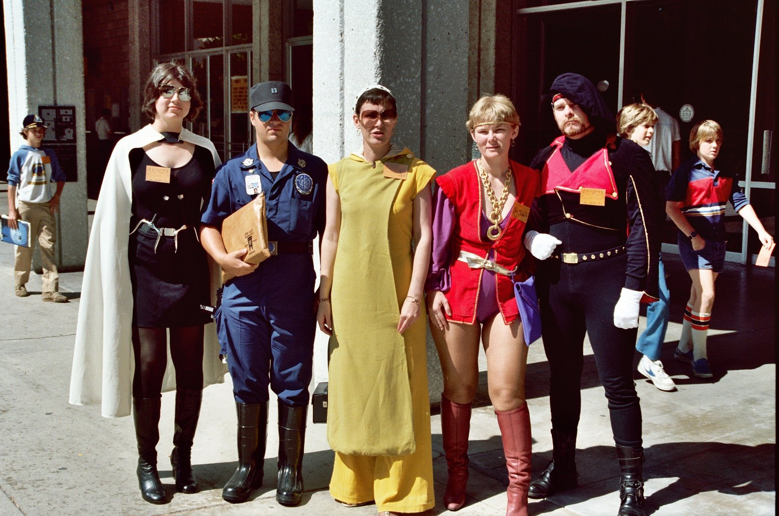 1982 San Diego Comic-Con International. Scanned from the original 35MM film negative. NOTE: Permission granted to copy, publish, broadcast or post any of my photos, but please credit "photo by Alan Light" if you can. Thanks.